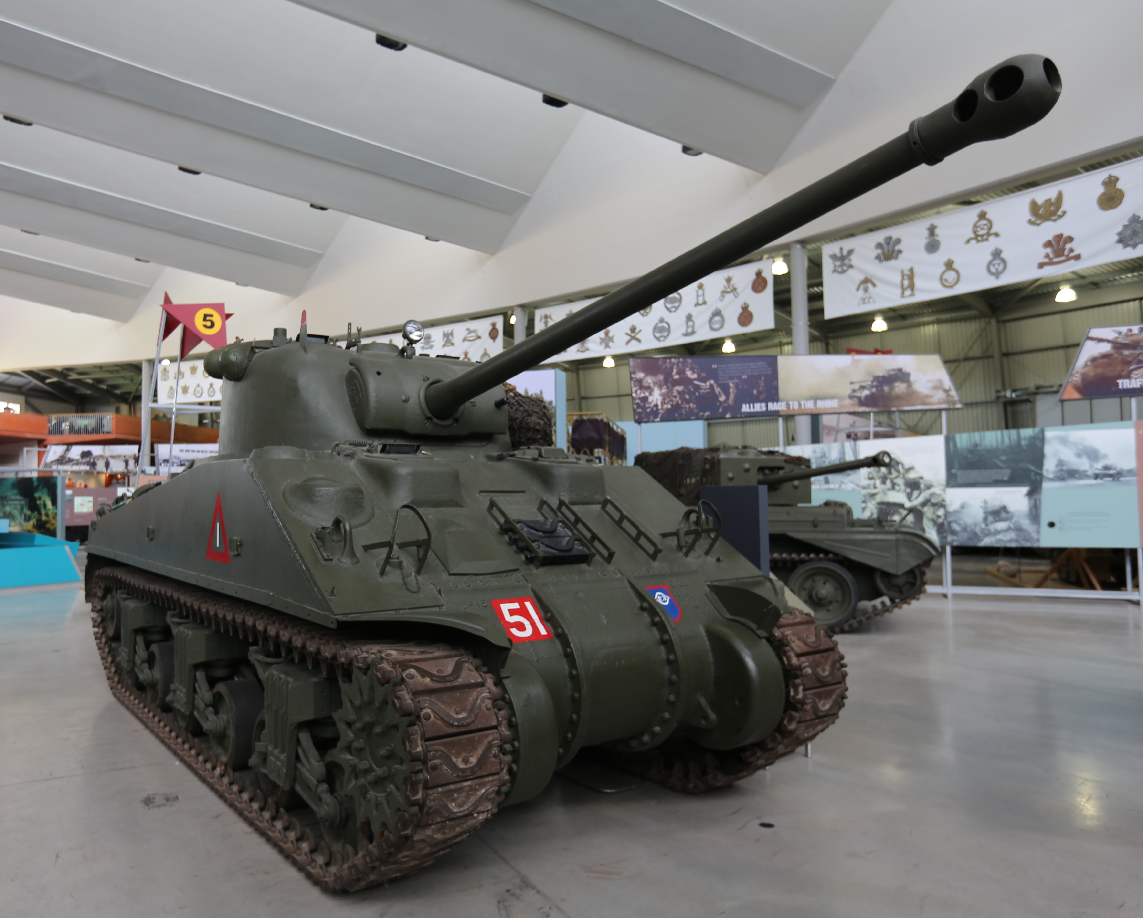 Photo of Sherman Firefly on display at bovington tank museum.